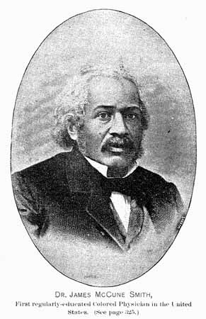 Portrait of James McCune Smith.